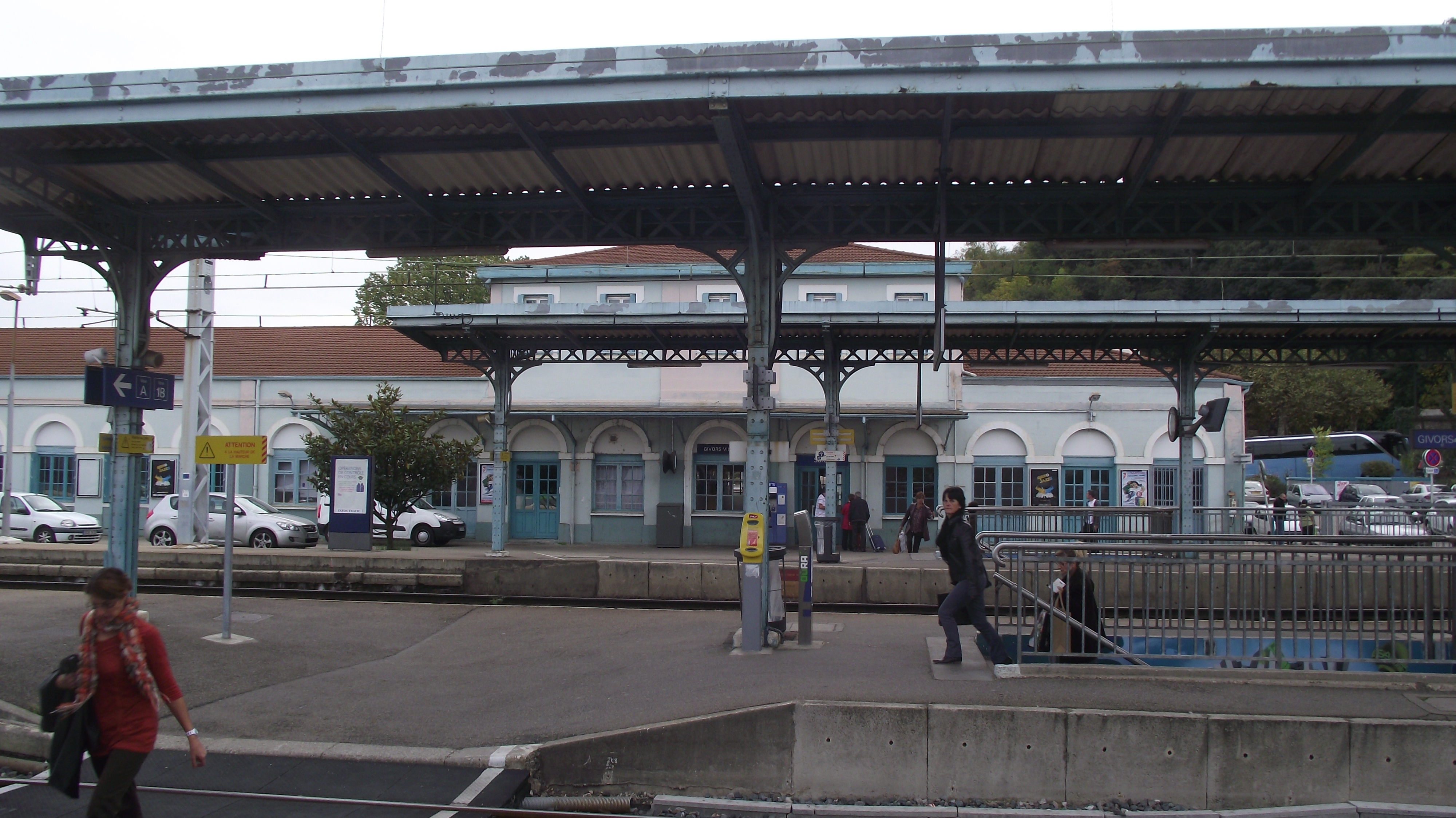 Platforms in Givors-Ville station